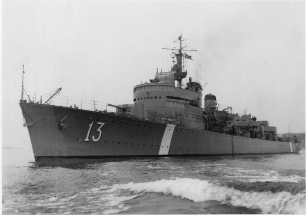 The Swedish destroyer HMS Hälsingborg.